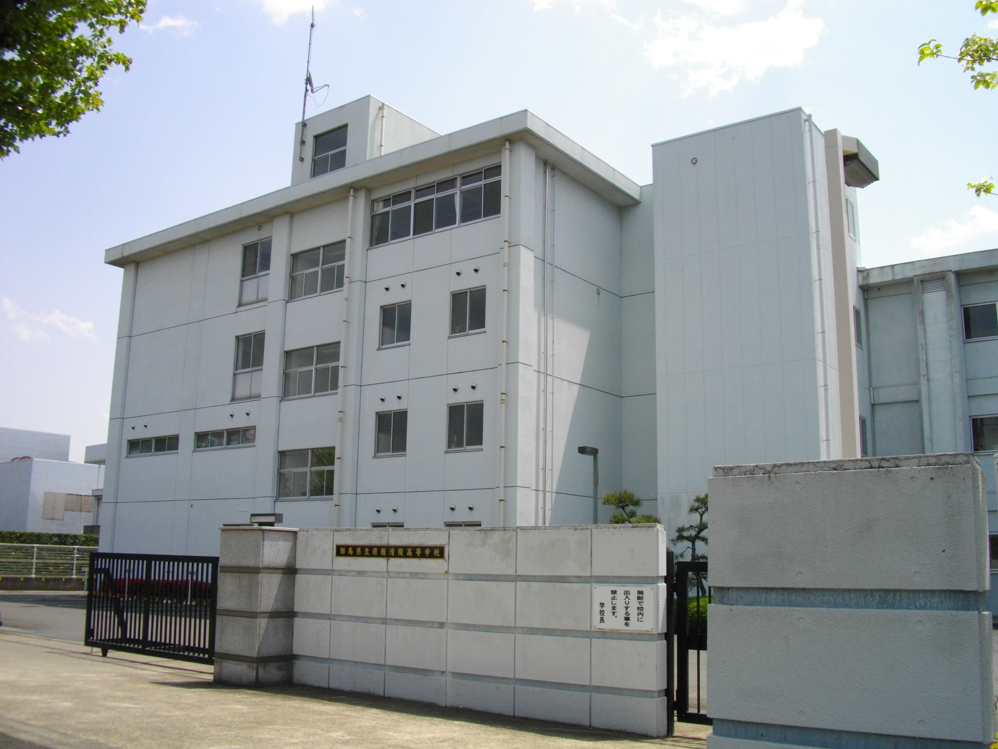 Maebashi Seiryo High School